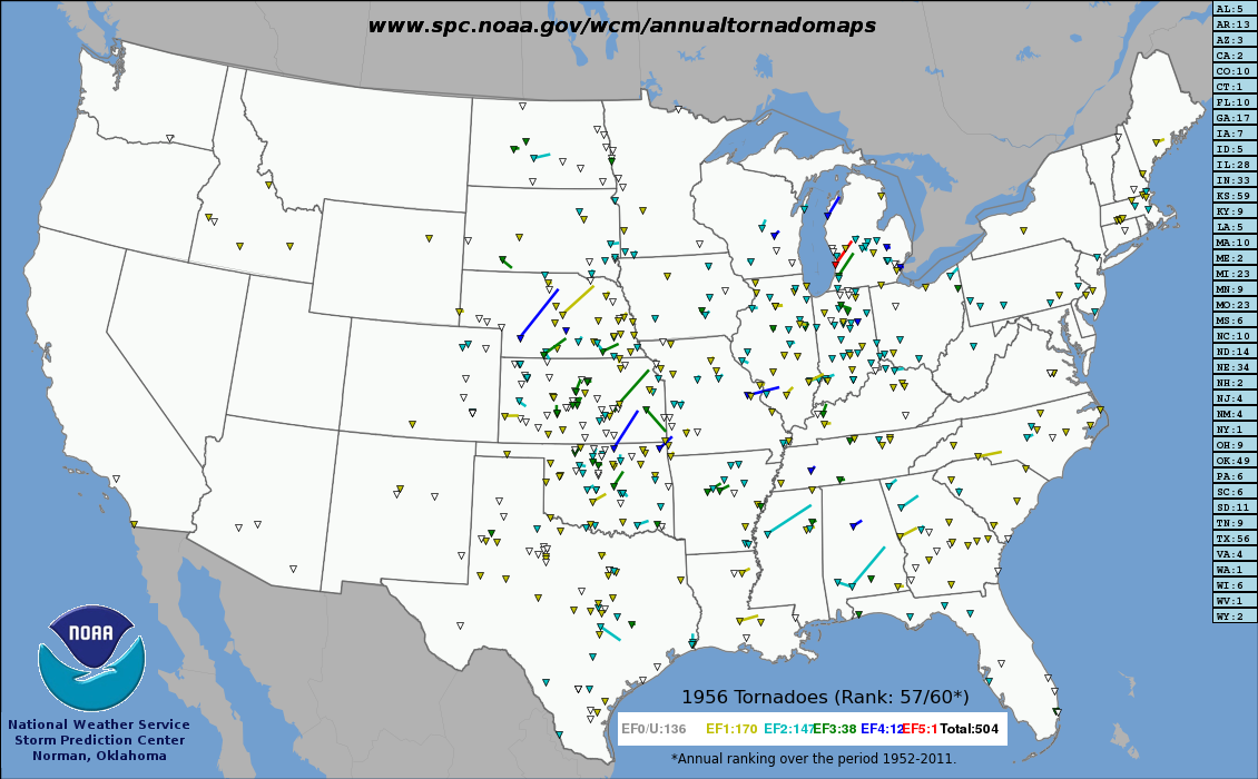 Track of every U.S. tornado from 1956.